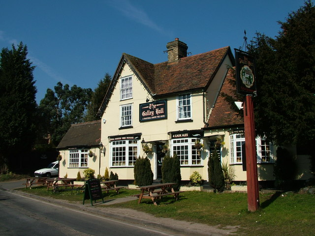 The Galley Hall. A nice pub on a quiet country road close to Haileybury College.